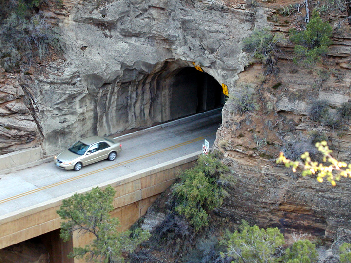 Zion-Mount Carmel Highway = Utah State Route 9 inside Zion National Park. The 25-mile road including an 1.1-mile tunnel was a engineering record when it was build from 1927 to 1930. It is listed in the National Register of Historic Places and became designated as a Historic Civil Engineering Landmark by the American Society of Civil Engineers in 2012.